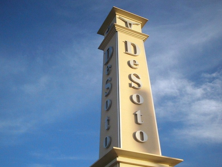 DeSoto Tower at I-35E and Pleasant Run Road in DeSoto, Texas (USA). Taken by User:Acntx on April 3, 2009.